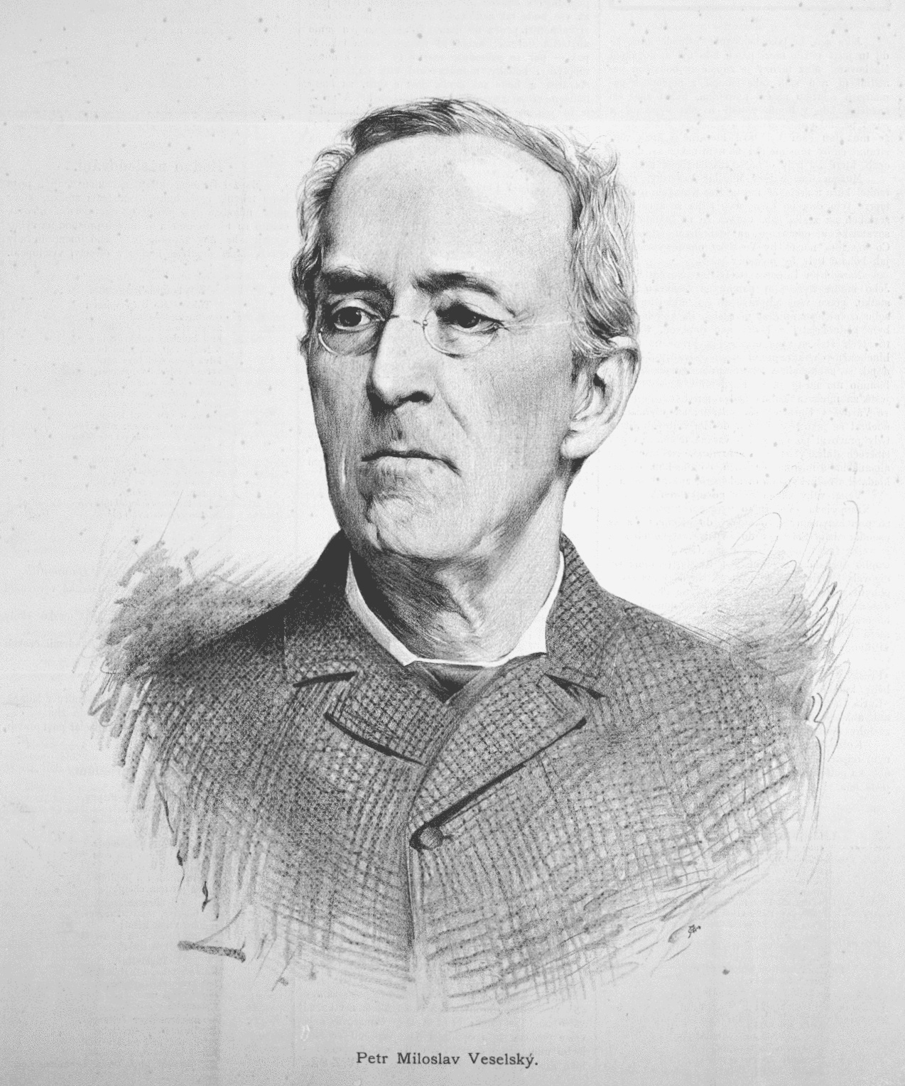 Petr Miloslav Veselský